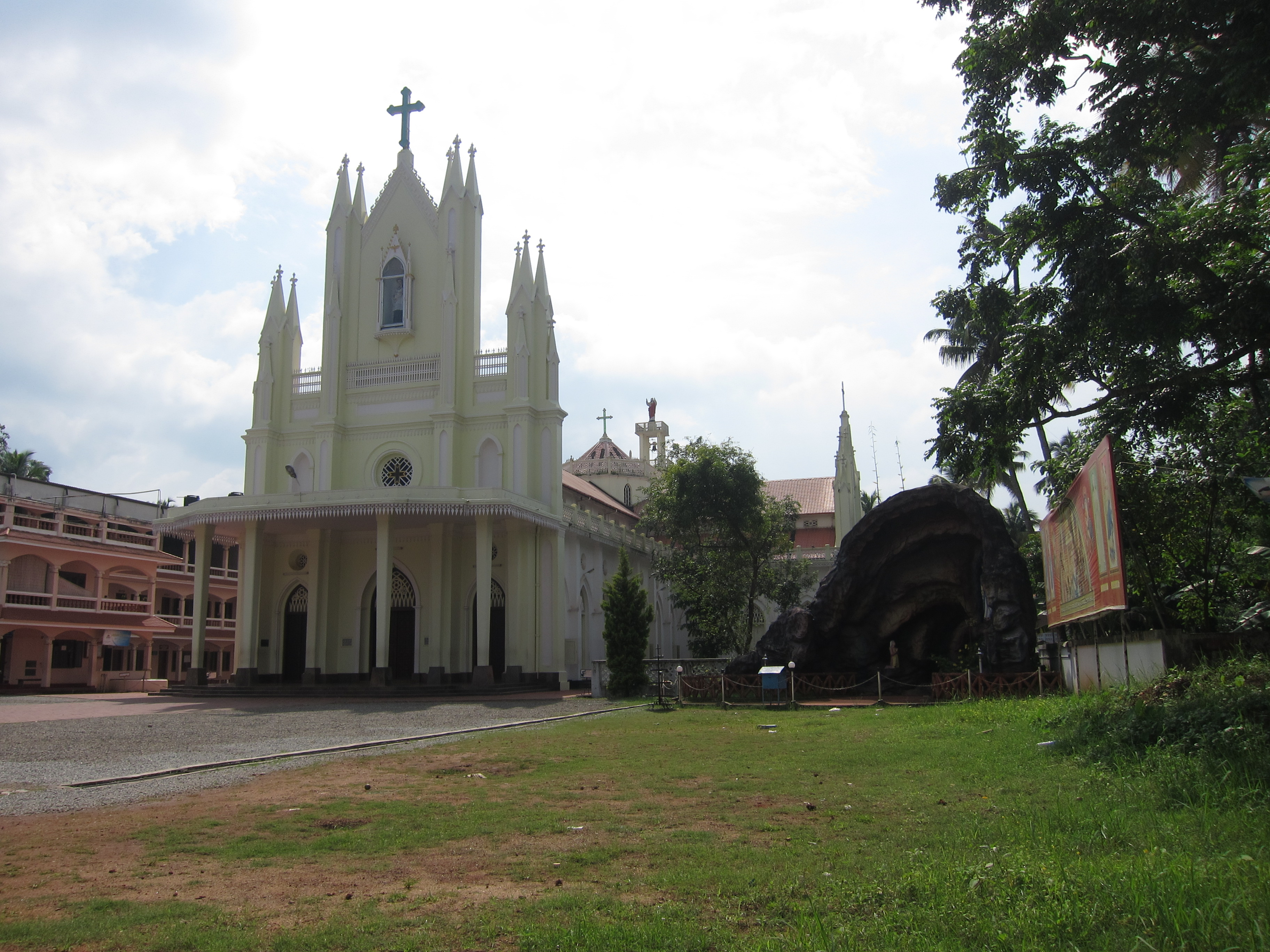 Mala St. Stanislaus Forane Church, Irinjalakuda Diocese, Thrissur District, Roman Catholic Syro Malabar, Estd. 1840. മാള സെന്റ് സ്റ്റനിസ്ലാവോസ് ഫൊറോന പള്ളി, ഇരിങ്ങാലക്കുട രൂപത, തൃശ്ശൂർ ജില്ല, റോമൻ കാത്തലിക് സീറോ മലബാർ, 1840 സ്ഥാപിതം.